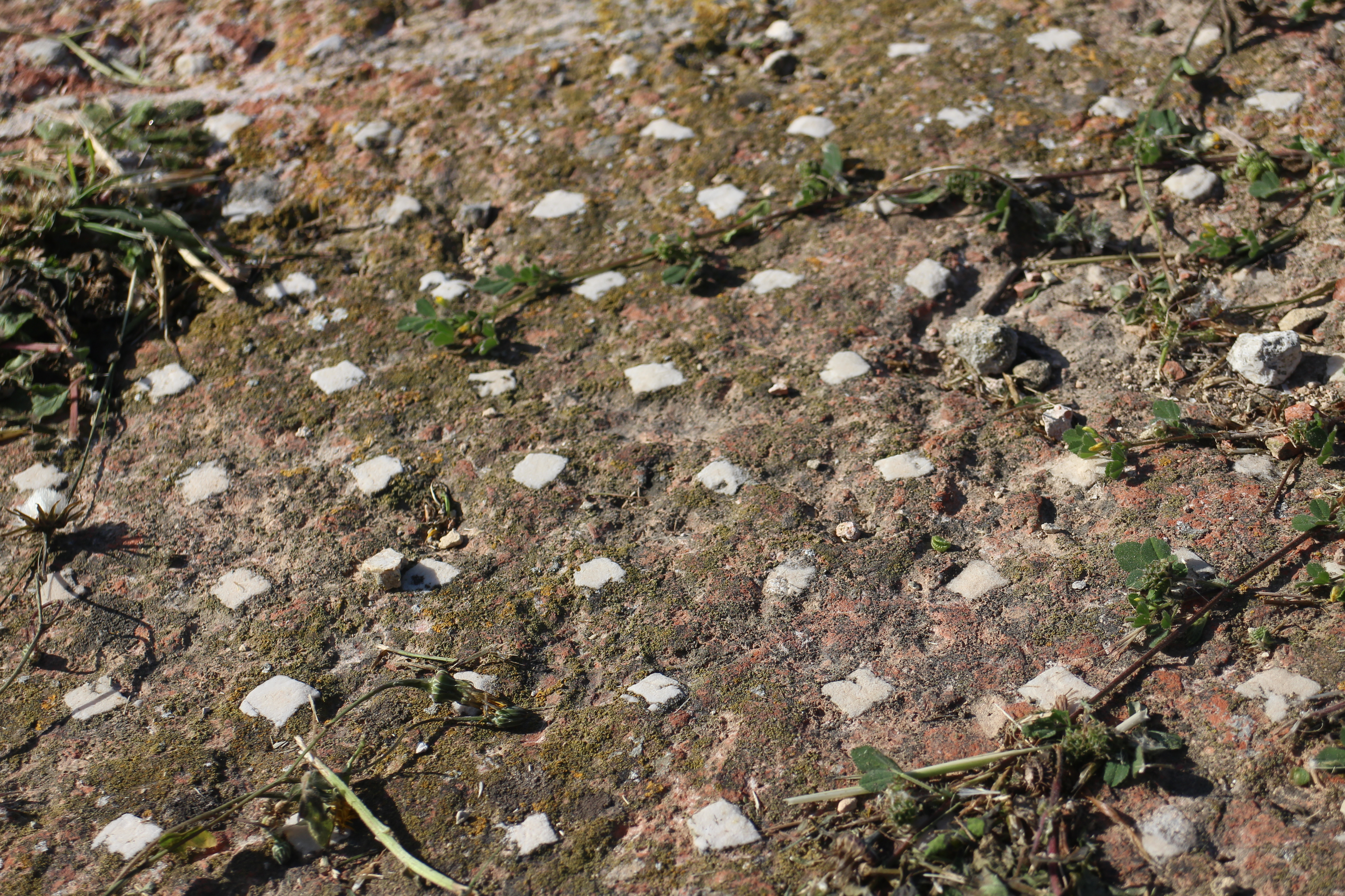 Tas-Silġ Temples, Triq Xrobb l-Għaġin in Marsaxlokk, Malta